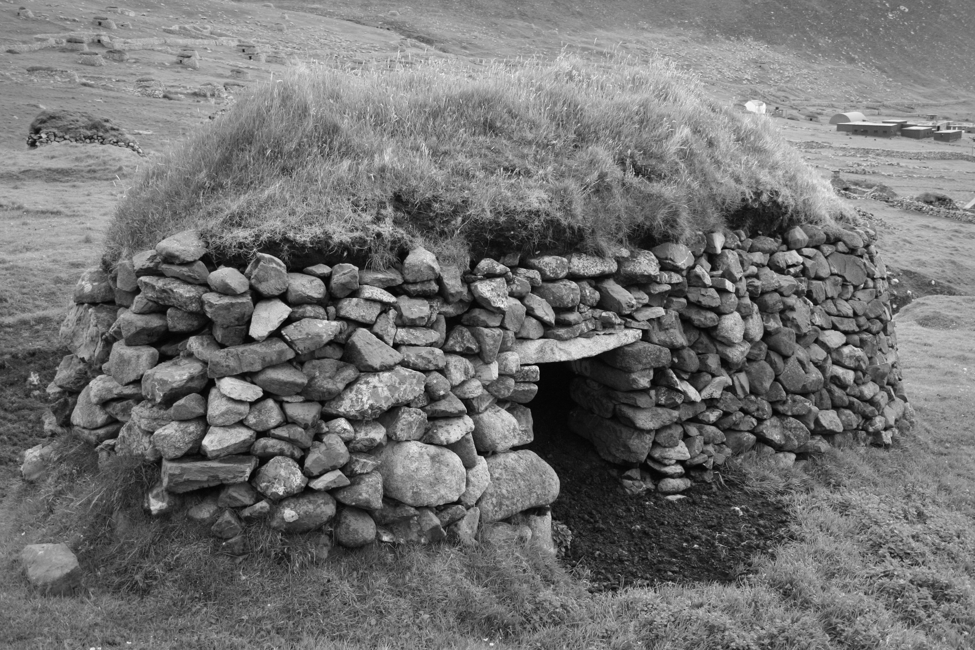 Dry stones bothy at Village Bay in Hirta, St Kilda